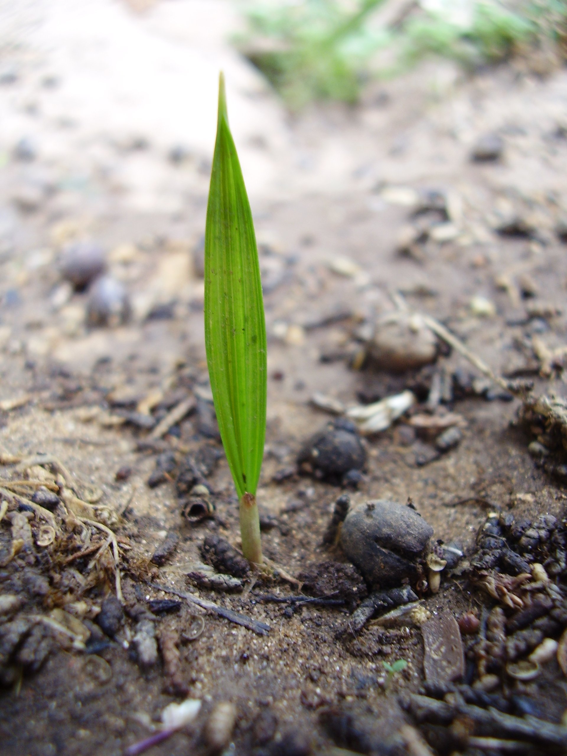 Washingtonia filifera seedling.